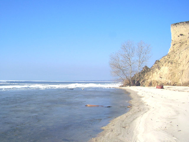 берег Дніпра у селі Капулівка